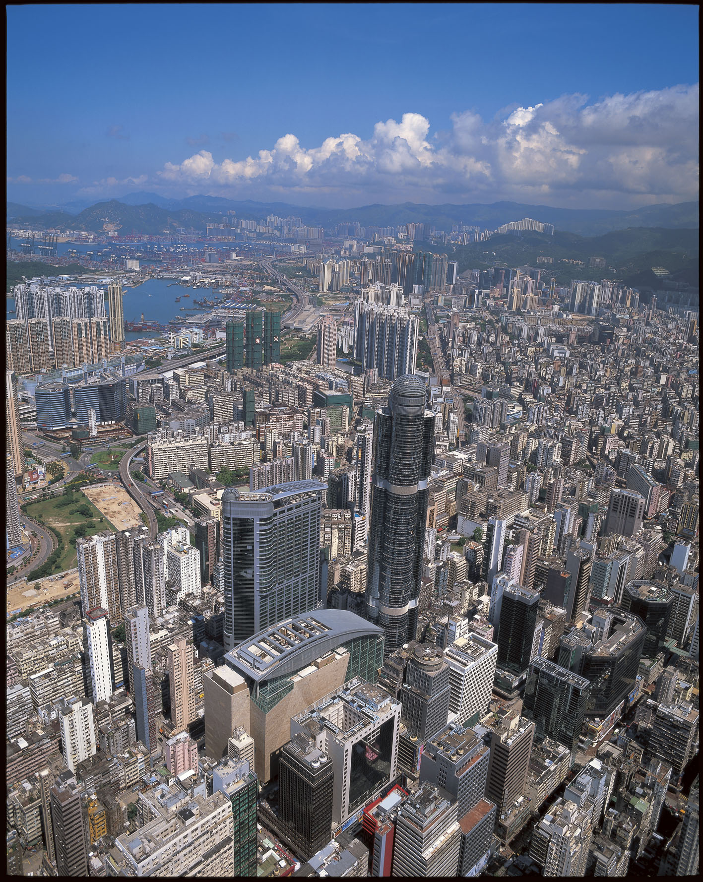 Langham Place Hotel birdview